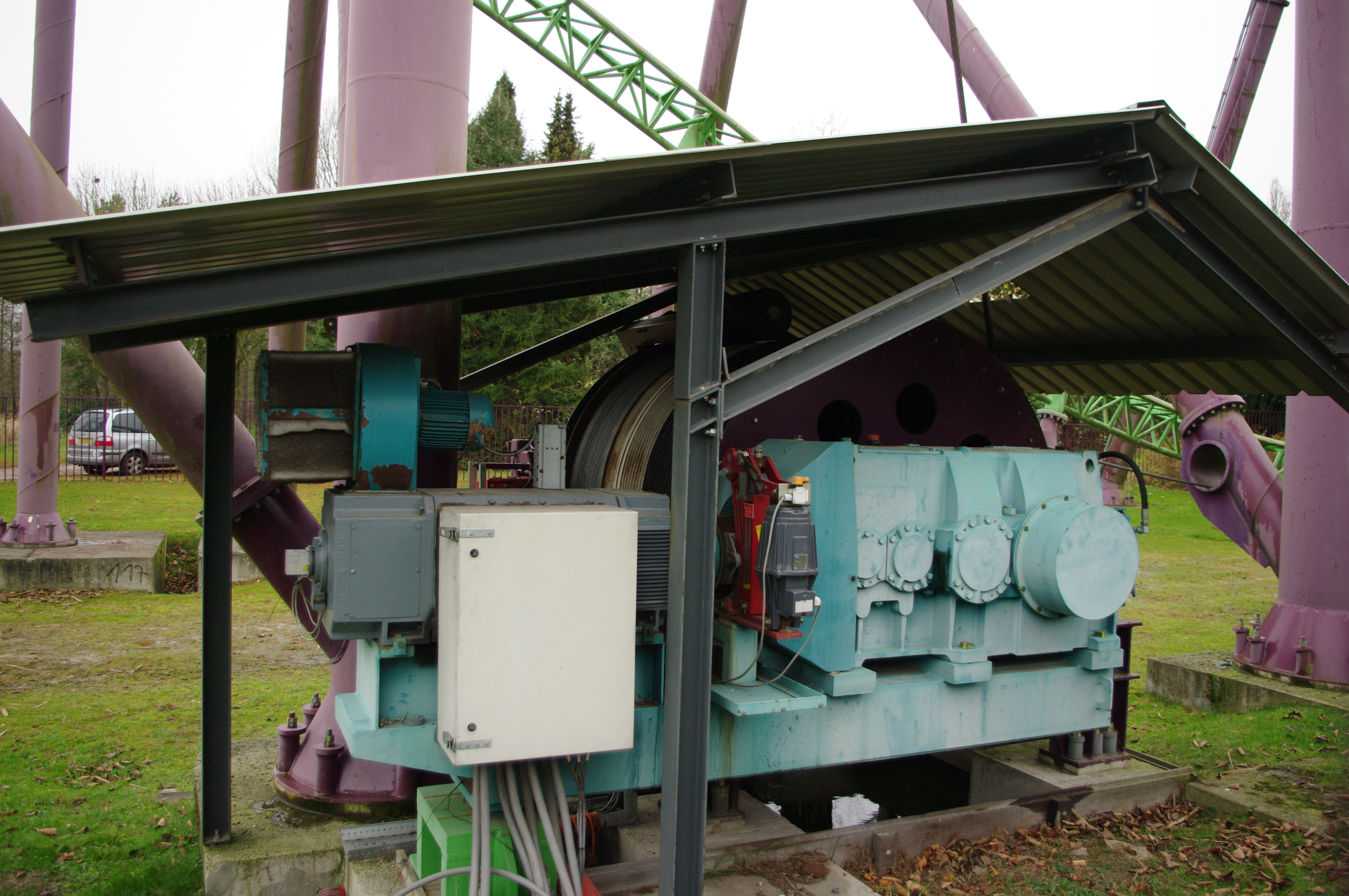 The winch used on the Goliath roller coaster in the dutch amusement park Walibi World